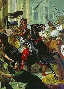 Sacco di Roma by Genseric 455 Vandals Rome